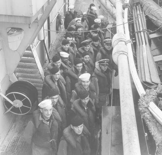 (original USCG caption) USS Escanaba, CG; "All hands at Quarters on deck."; circa-late 1942; photo is from Roll No. 4; photo by Ray Platnick, P.M.1c.